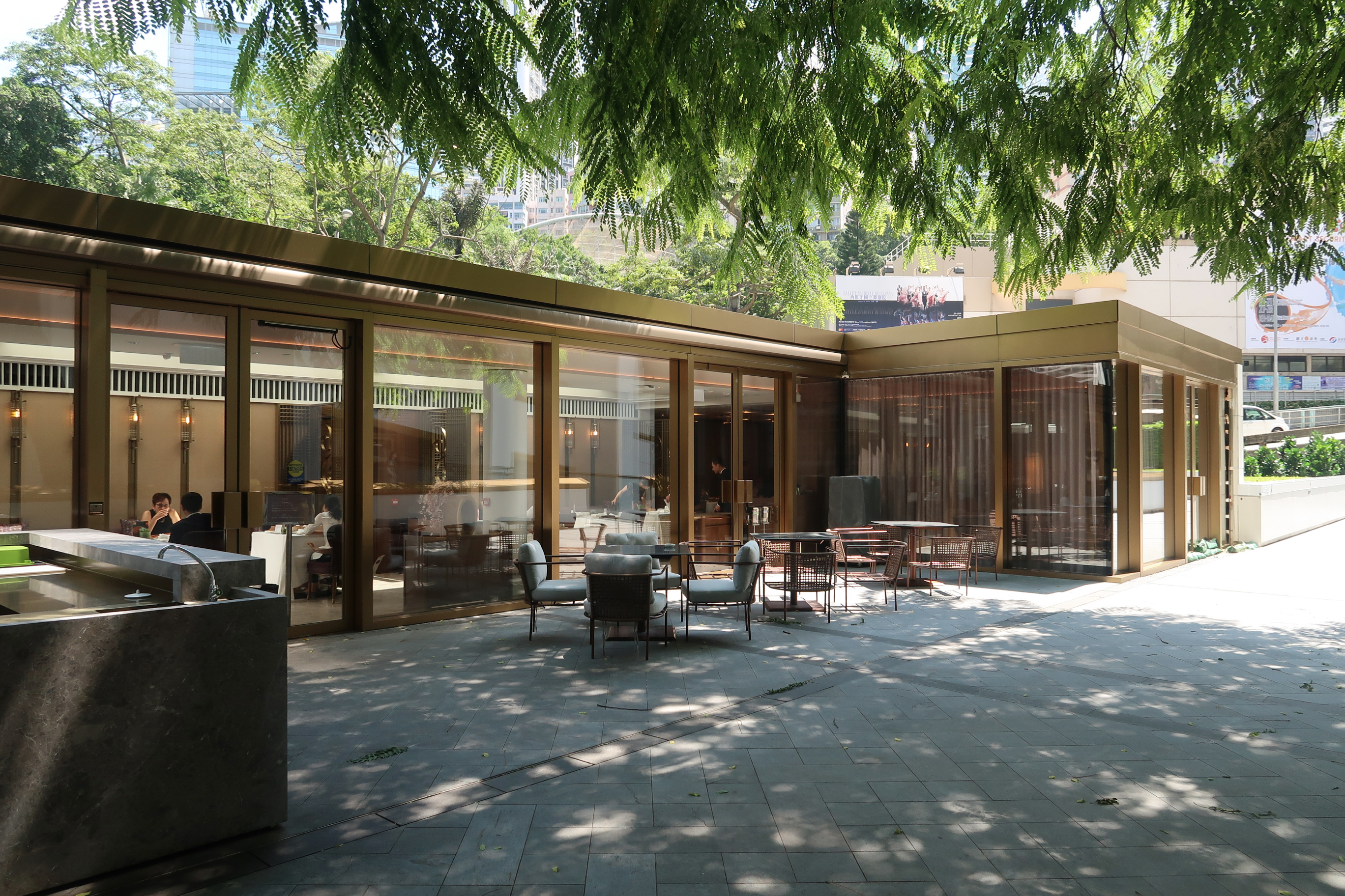 The Murray Guo Fu Lou